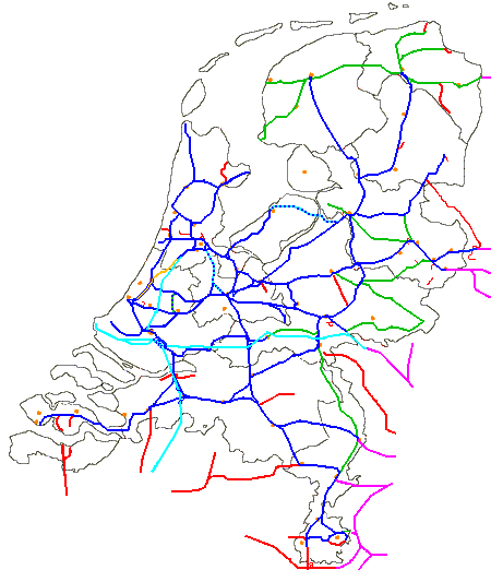 Map of the railways in the Netherlands, which shows the lines where different train protection systems are in use.